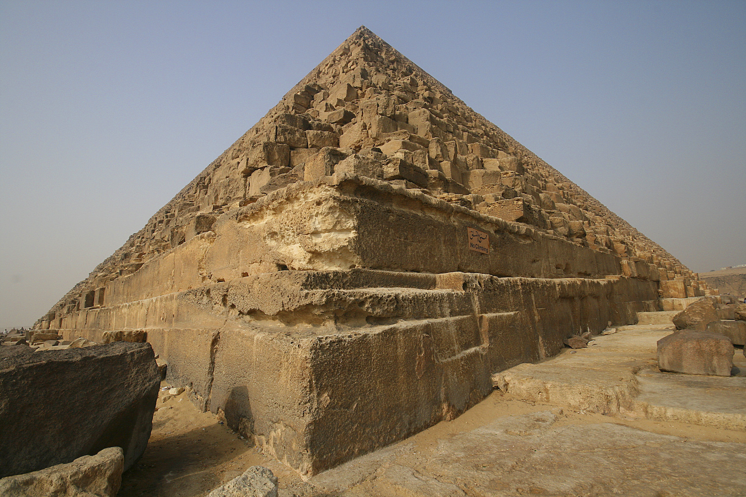 Giza Pyramid